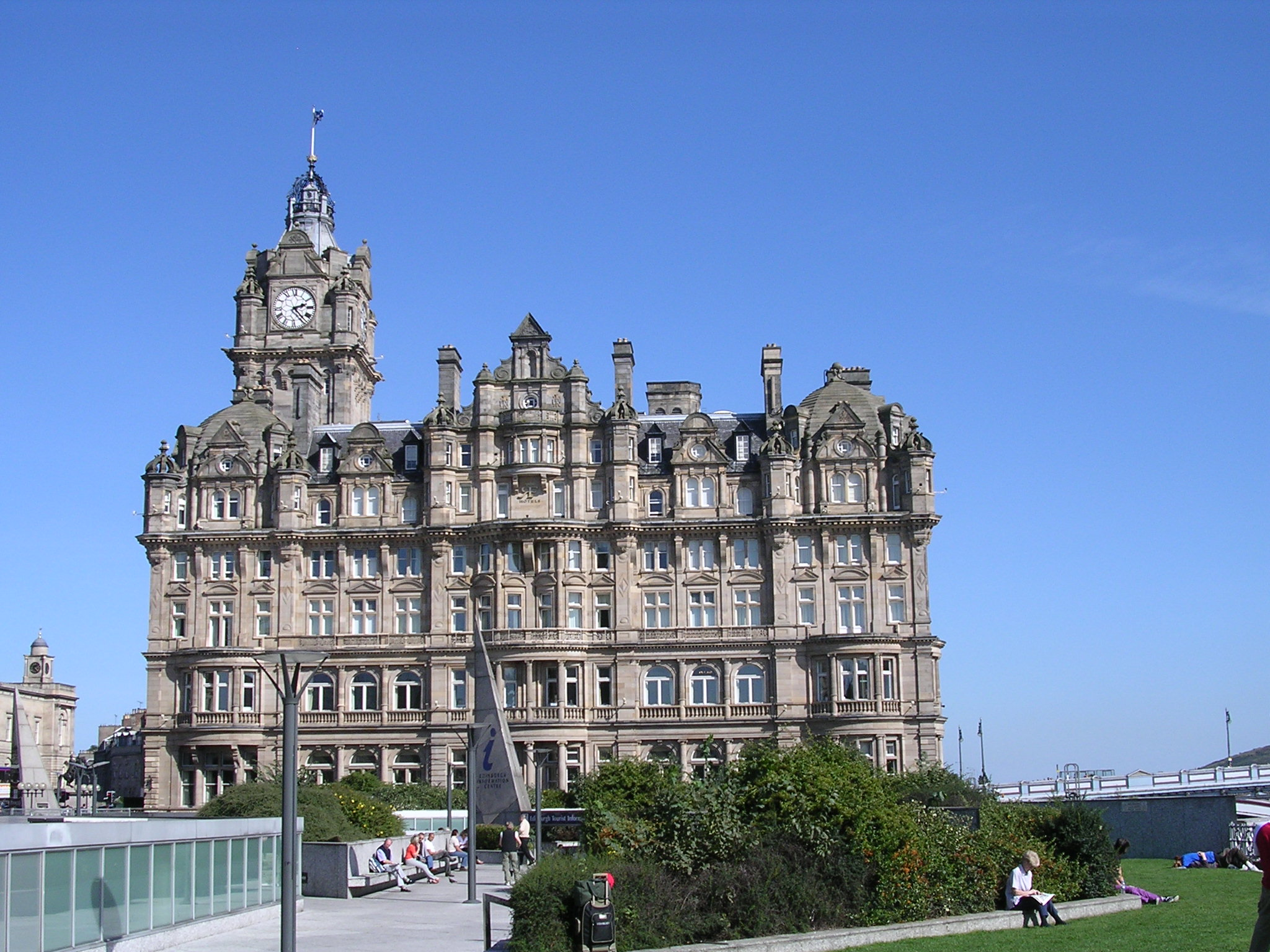 The Balmoral Hotel, Edinburgh